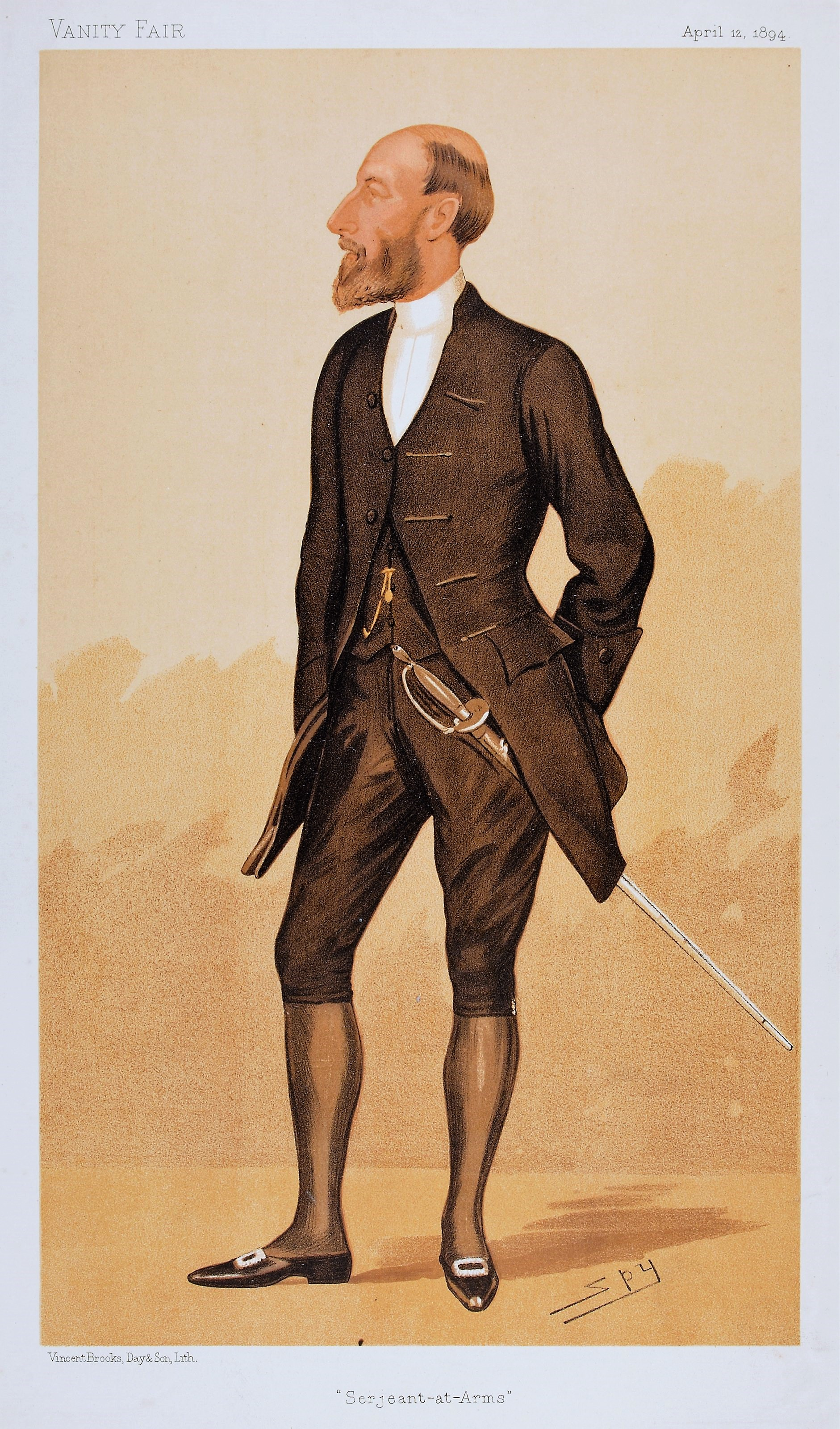 Men of the Day No. 583: Caricature of Mr. Henry David Erskine (1838-1921), Serjeant-at-Arms of the House of Commons 1885 - 1915. See brief biography at Caption read "Sergeant-at-Arms".